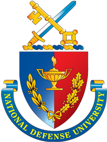 National Defense University Logo.